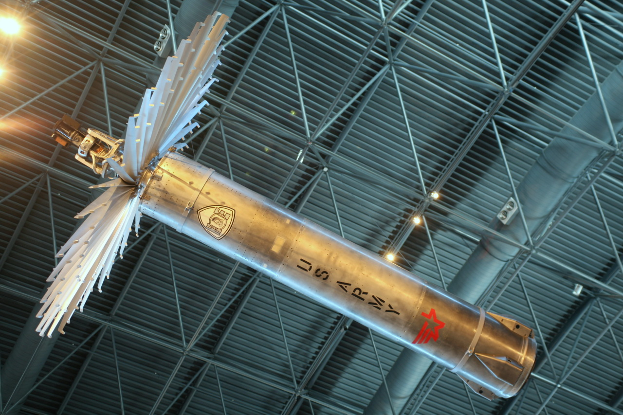 Lockheed built this unflown antiballistic missile (ABM) test vehicle for the U.S. Army's Homing Overlay Experiment (HOE). The HOE vehicle was designed to destroy a missile by physically impacting it - a concept known as "hit-to-kill." After separating from the booster, the vehicle would use its on-board sensors to identify and lock-on to the incoming missile and would use other components to direct it to impact. On the last of four HOE tests, a vehicle intercepted an incoming dummy warhead in the first successful demonstration of hit-to-kill technology in June 1984. The United States is now using much smaller hit-to-kill vehicles in deployed ABMs. Steven F. Udvar-Hazy Center.